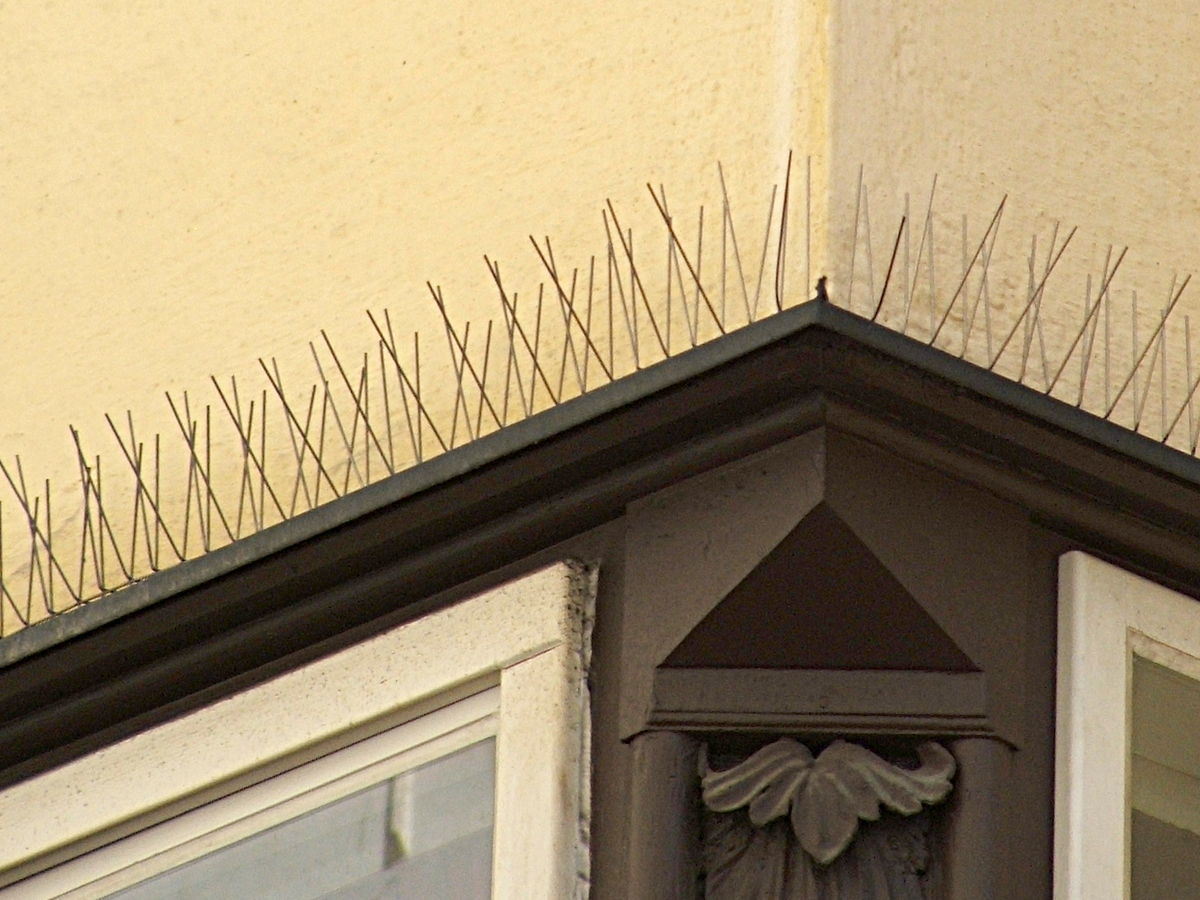 Dove spikes